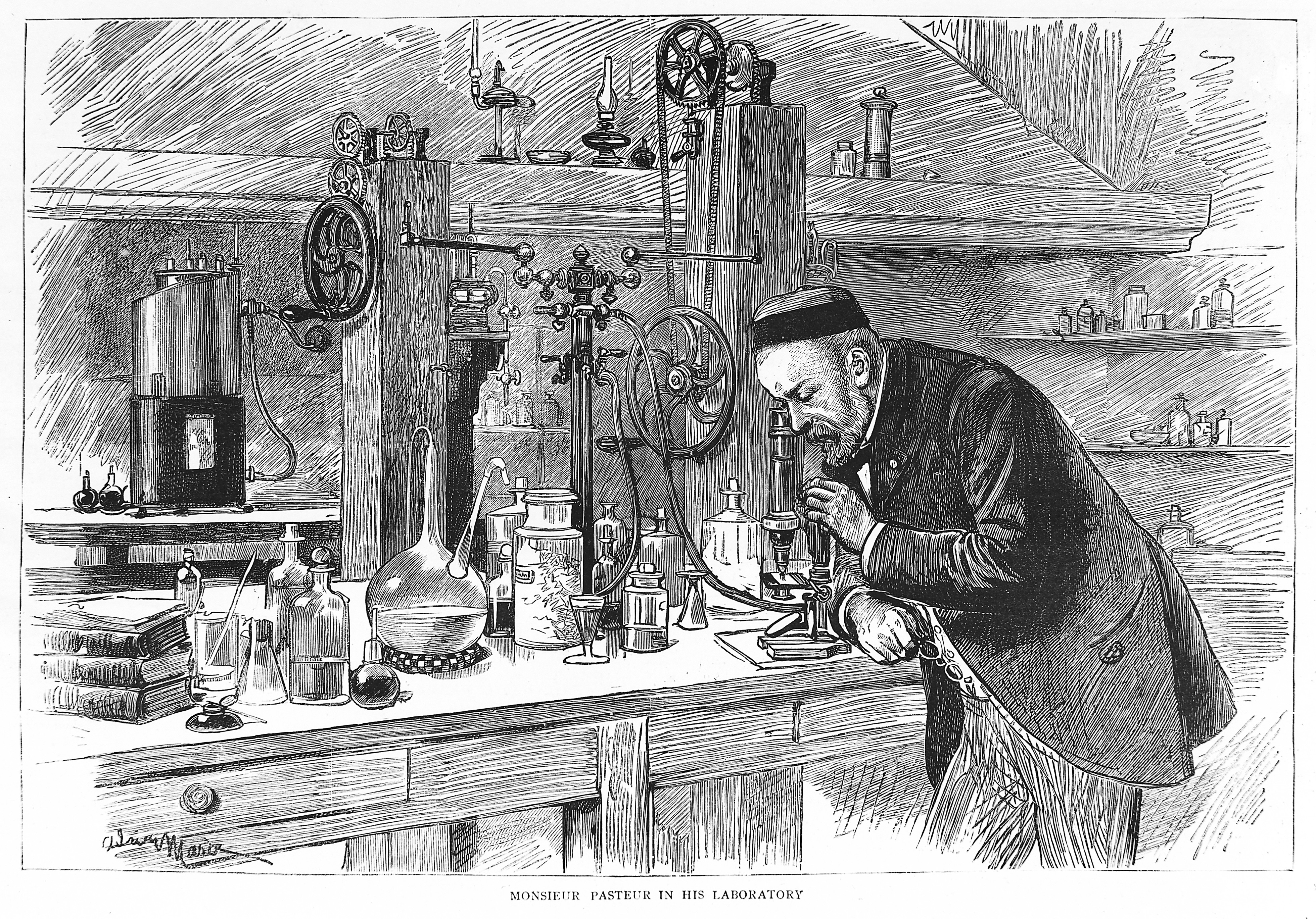 Portrait of Louis Pasteur in his laboratory using a microscope. Wellcome Images Keywords: Louis Pasteur; Adrian Mare